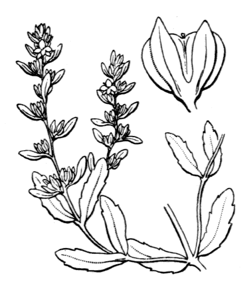 Necklace Weed (Veronica peregrina), an etching by Hippolyte Coste (1858-1924), Flore descriptive et illustrée de la France, de la Corse et des contrées limitrophes, published from 1900 to 1906 by Paul Klincksieck.